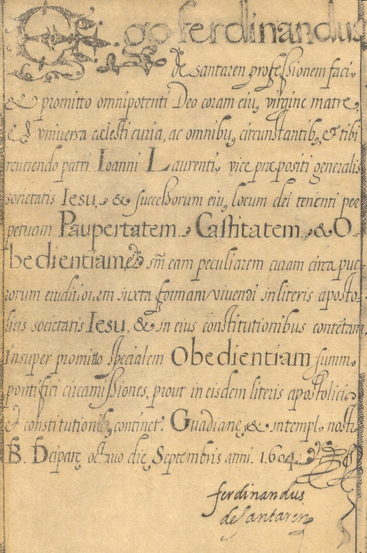 The text of the religious profession made by Jesuit missionary Fernando de Santarem in 1604.